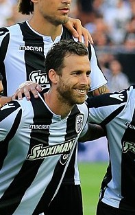 PAOK VS. Spartak Moscow 8 august 2018